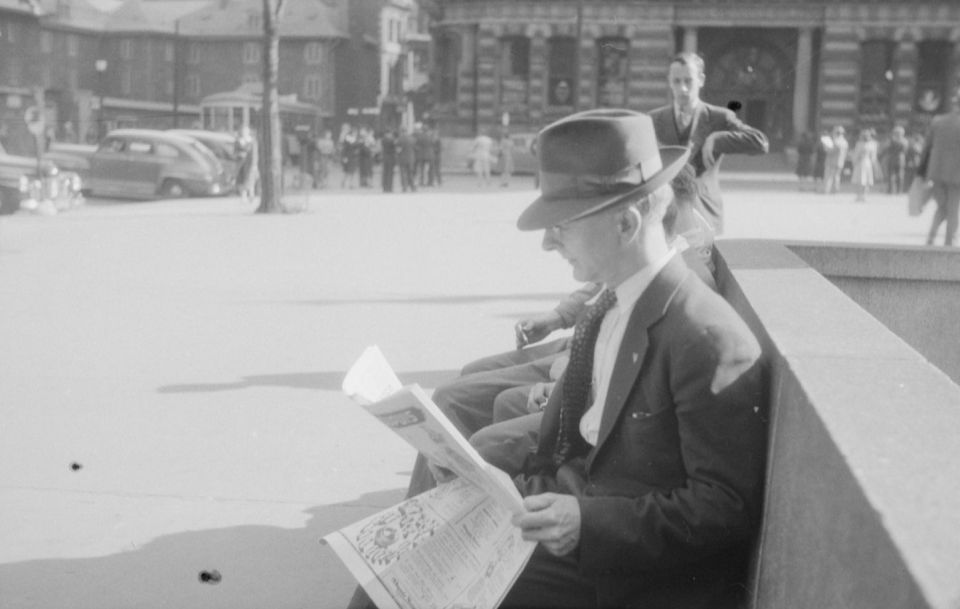 A man reads his newspaper sitting at Phillips Square in Montreal.